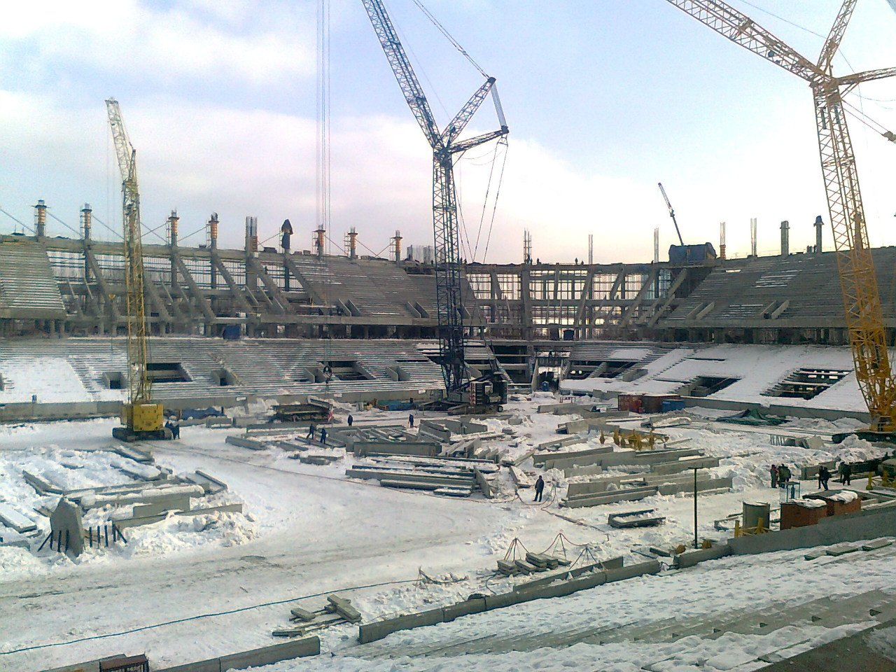 Spartak stadium (Otkrytiye Arena). February 2013. To be open in 2014. Capacity - 44 000. Special thanks to Vasily K. Konov